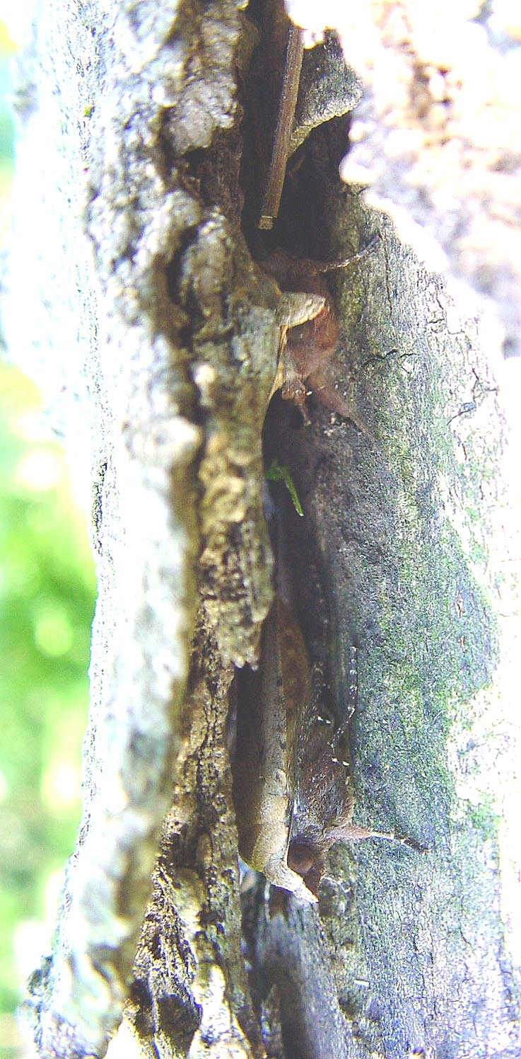 Decaying tree Lieu : North of France.